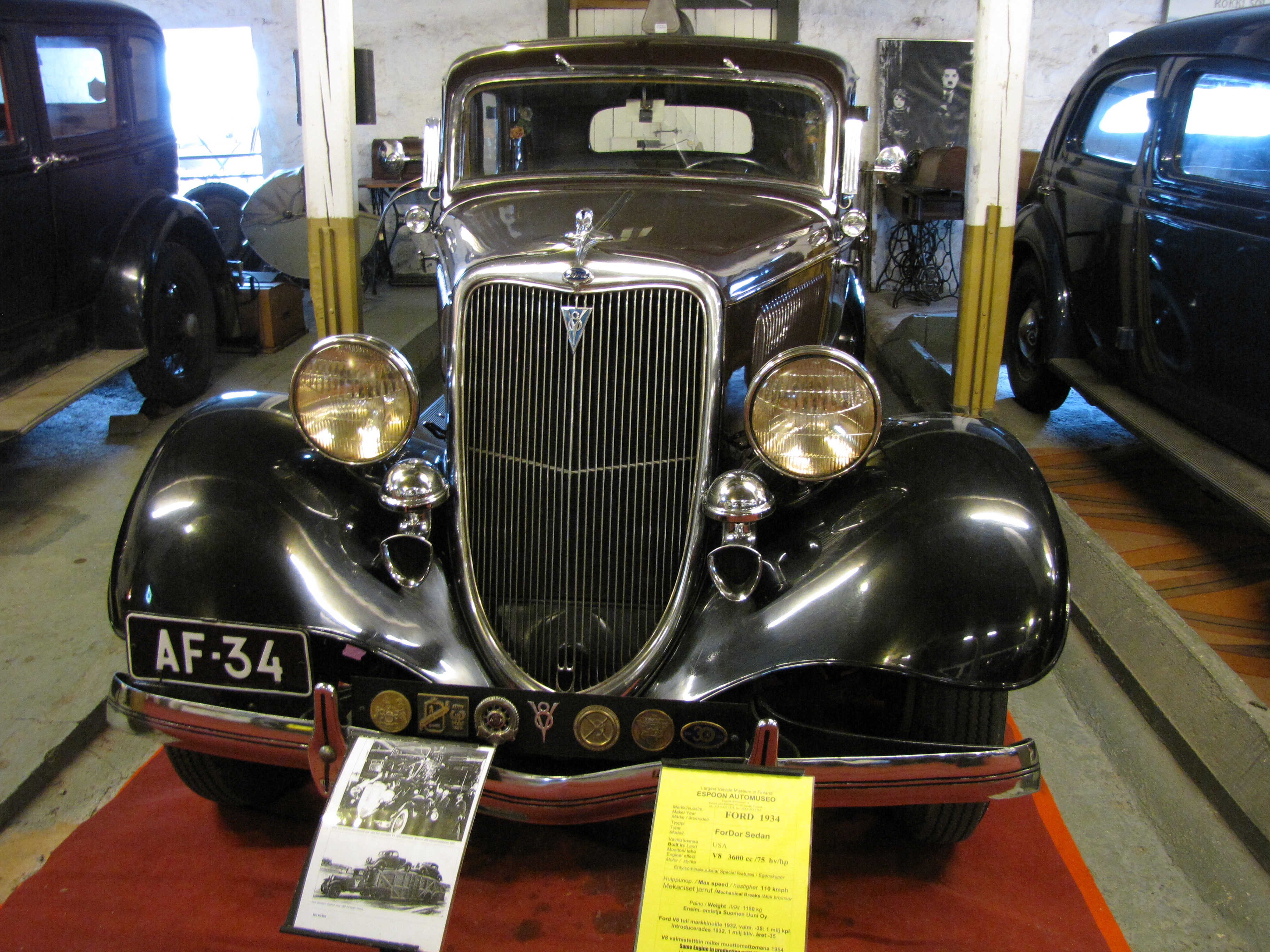 Ford V8 ForDor Sedan model 1934. V8, 3600 cm3, 75 hp. Photographed in Espoo Automobile Museum.